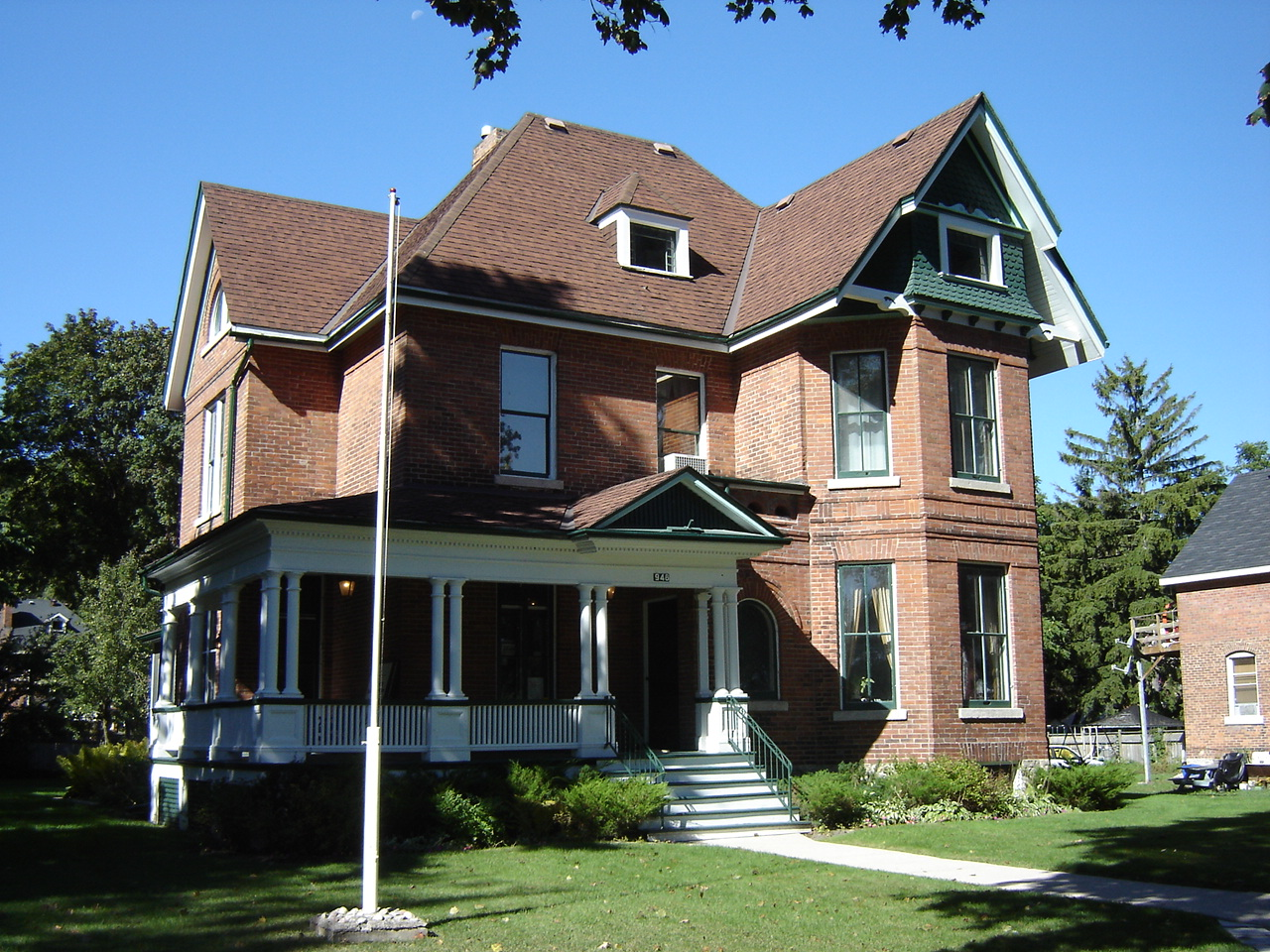 Billy Bishop Home and Museum, Owen Sound, photo by Jay Smith